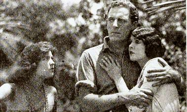 Still from the American film Ebb Tide (1922) with Jacqueline Logan, James Kirkwood, Sr., and Lila Lee, on page 6 of the December 2, 1922 Exhibitor's Trade Review.